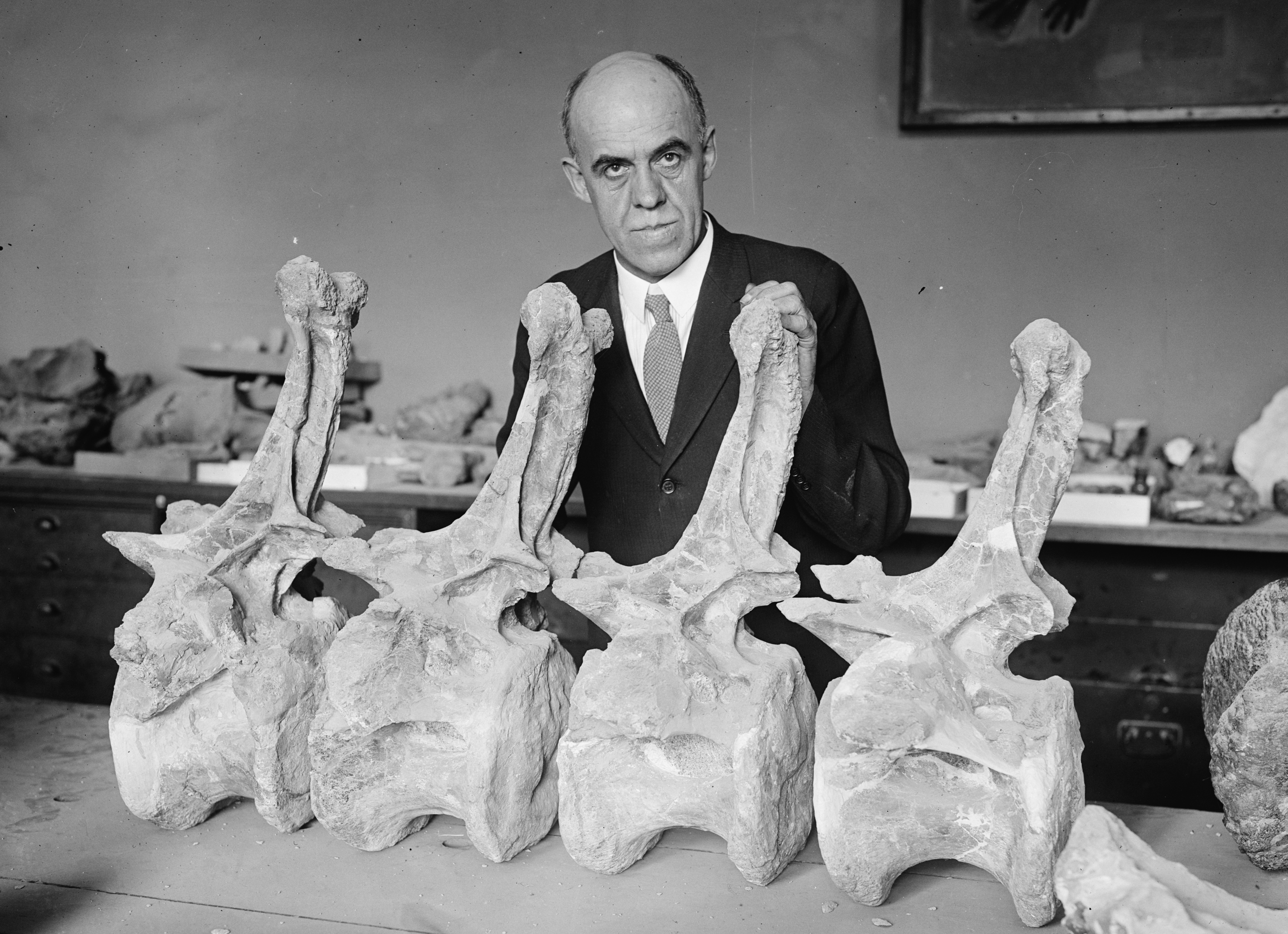 Title: Prof. Chas. Gilmore of Smithsonian Institution with dinosaur Diplodochus, 9/25/24 Abstract/medium: 1 negative : glass ; 5 x 7 in. or smaller